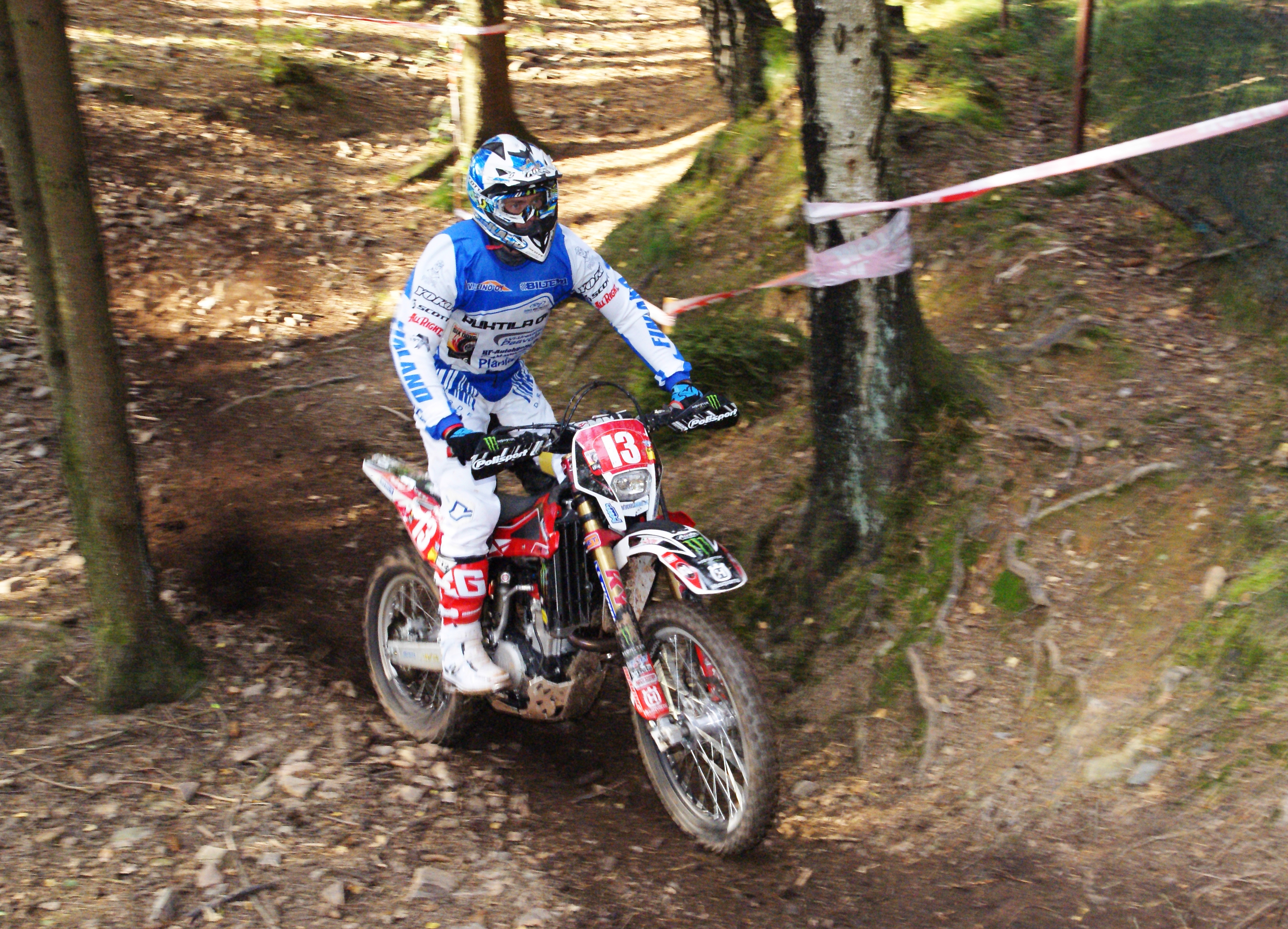 The making of this document was supported by the Community-Budget of Wikimedia Germany. 87. ISDE Saxony 2012 Red Bull SIX DAYS ADAC Sachsen-Test/SP Thalheim Juha Salminen